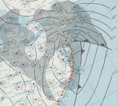 Surface weather analysis of a nor'easter on 26 December 1969.